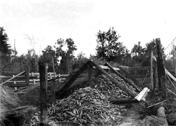 Sweet potatoes bank for storage